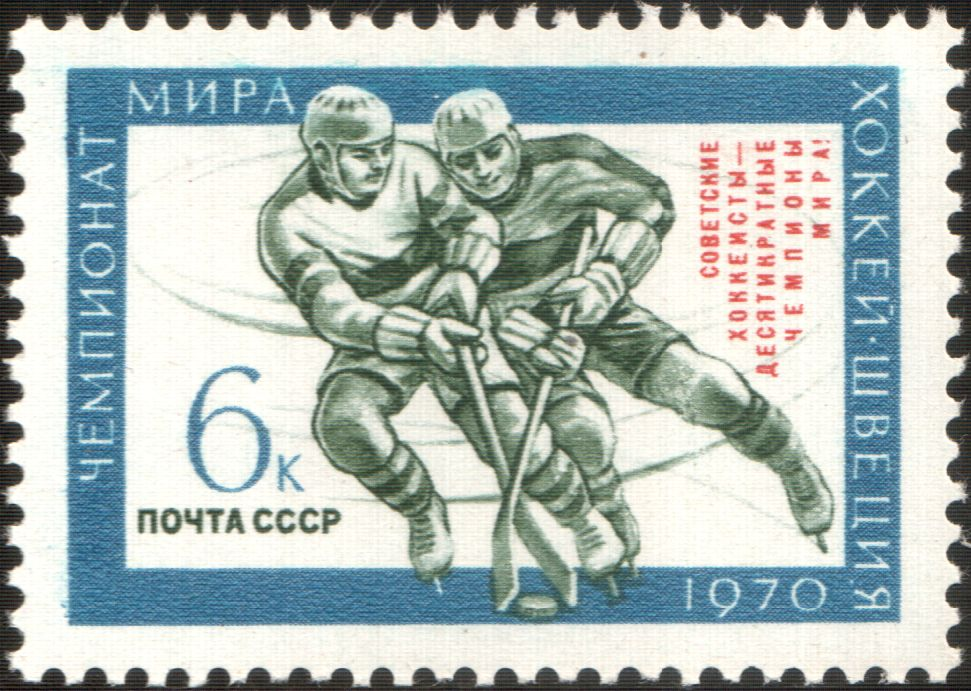 USSR stamp: 3869 Overprinted Soviet hockey players as the tenfold world champions. Series: Soviet Victory in the Ice Hockey World Championships, Stockholm, Sweden, 1970